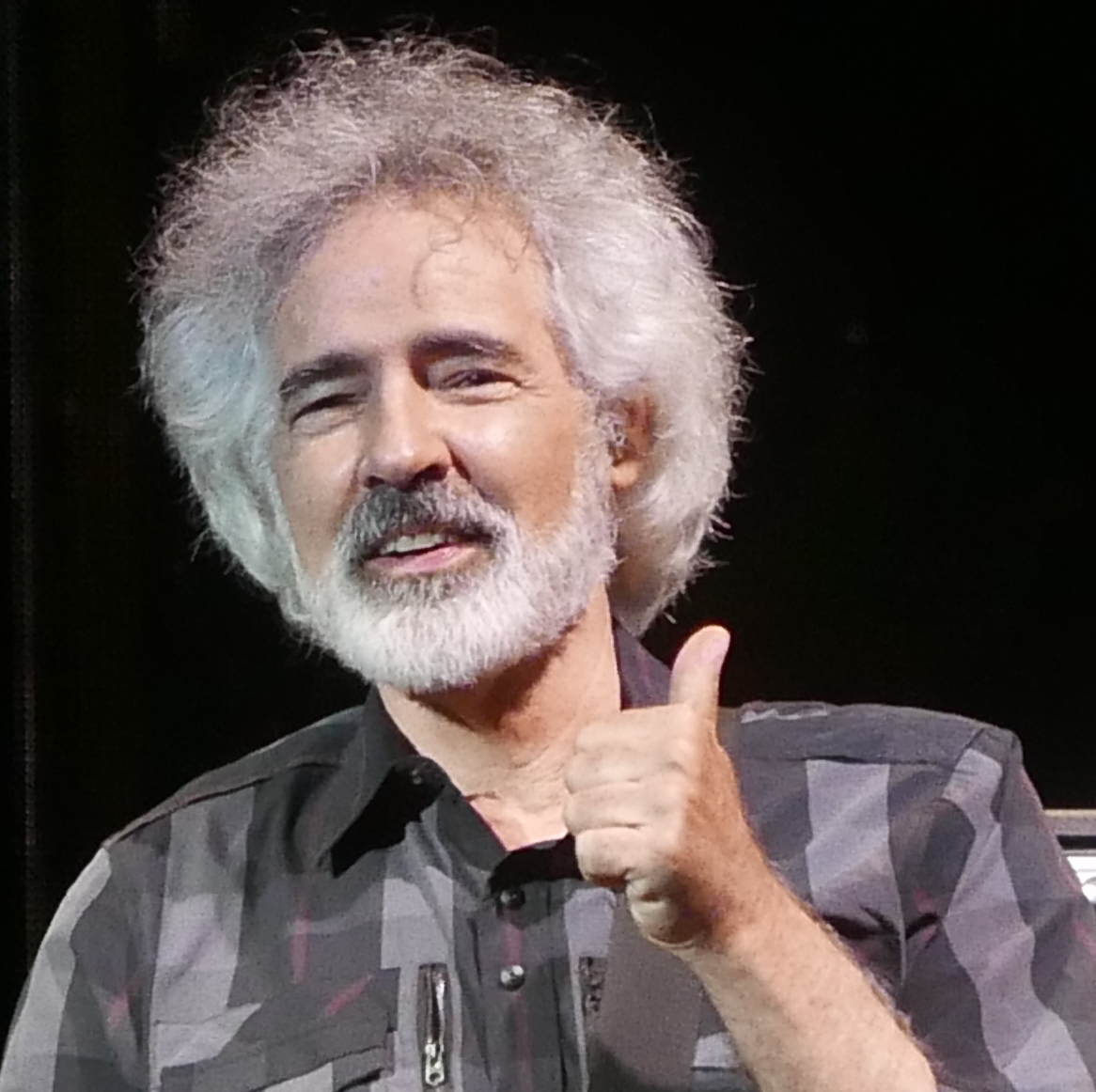 Rob Blair performing with Tom Petty and the Heartbreakers in Berkeley, CA, on August 28th, 2017.